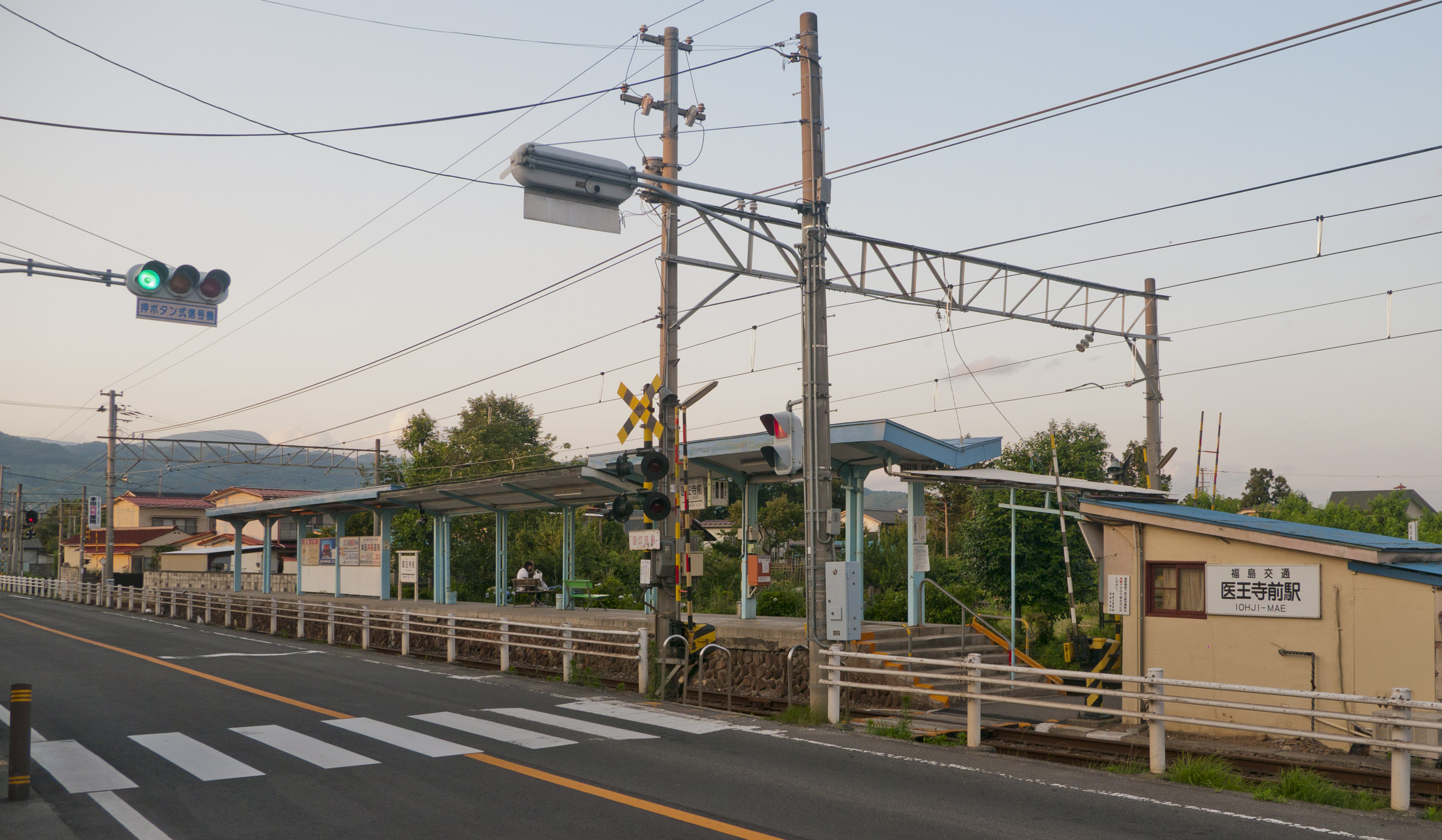 Fukushima Kotsu Iizaka Line Ioujimae Station in Fukushima, Fukushima, Japan